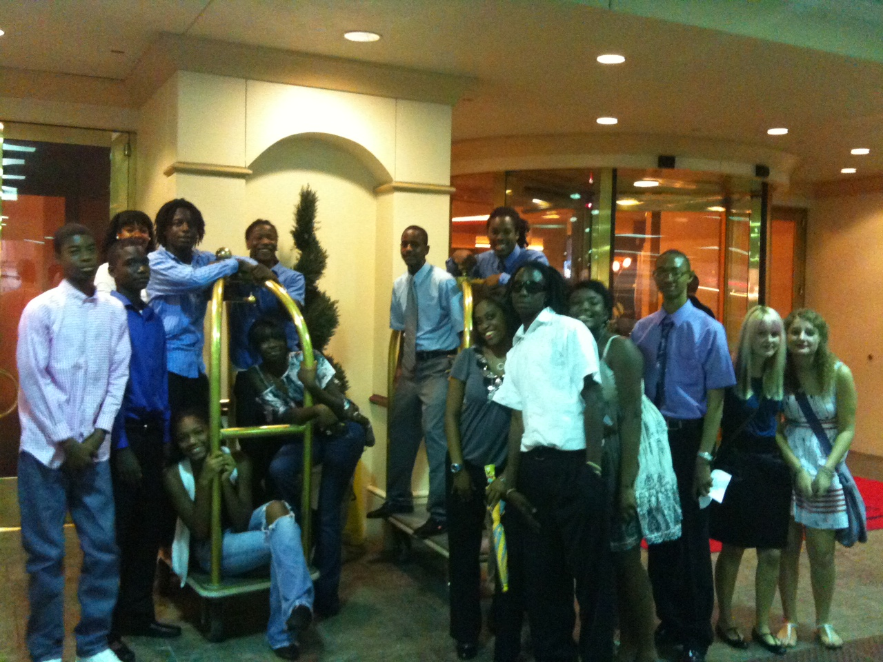 Some APEX teen leaders were invited to a breakfast. APEX Leadership Council at a Lawyers Association breakfast.